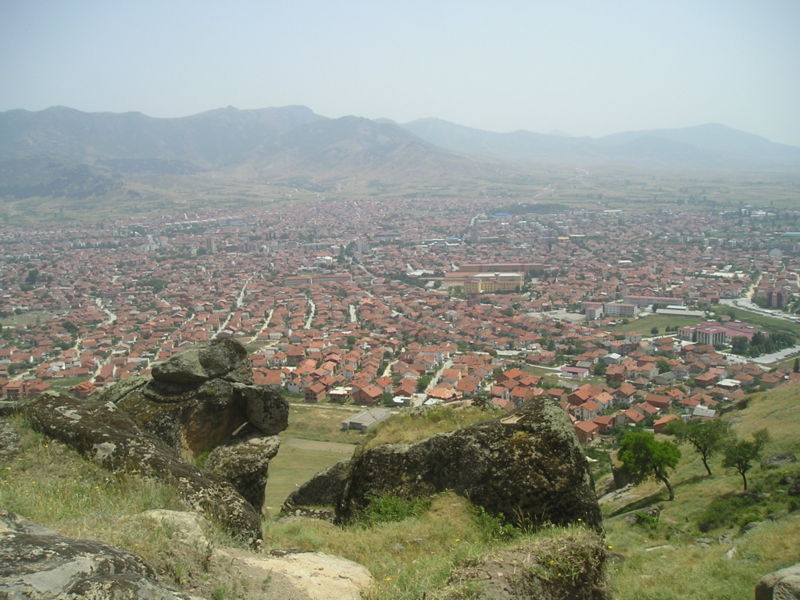 Panorama of the city of Prilep from Markovi Kuli (Marko's Towers), Republic of Macedonia